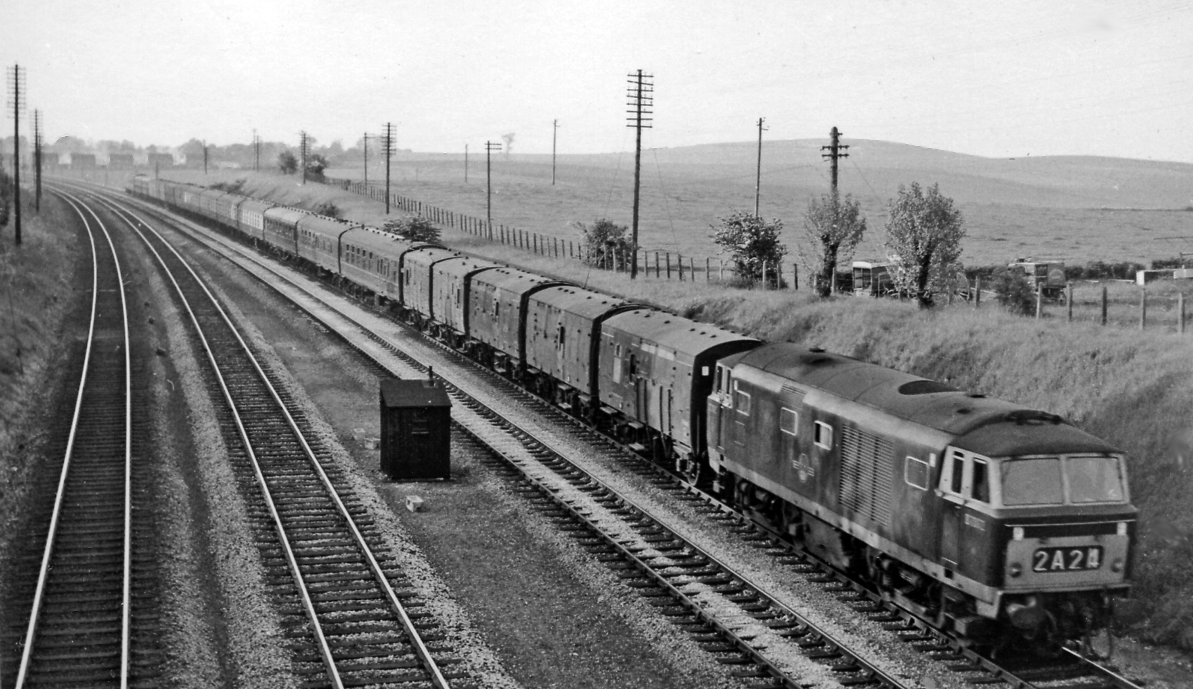 Diesel-hauled van train nearing Goring & Streatley station. View northward, towards Swindon etc.; ex-GWR London - Bristol etc. main line. The locomotive is Type 3 1,700hp B-B Diesel-Hydraulic No. D7062.